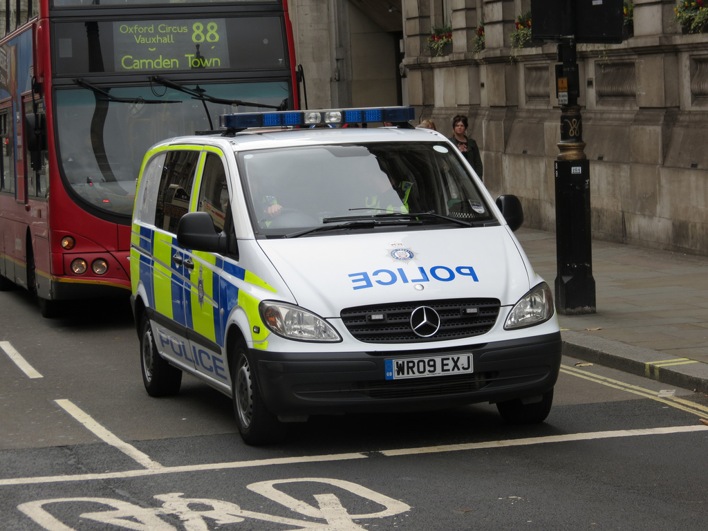 United Kingdom Police Vehicle